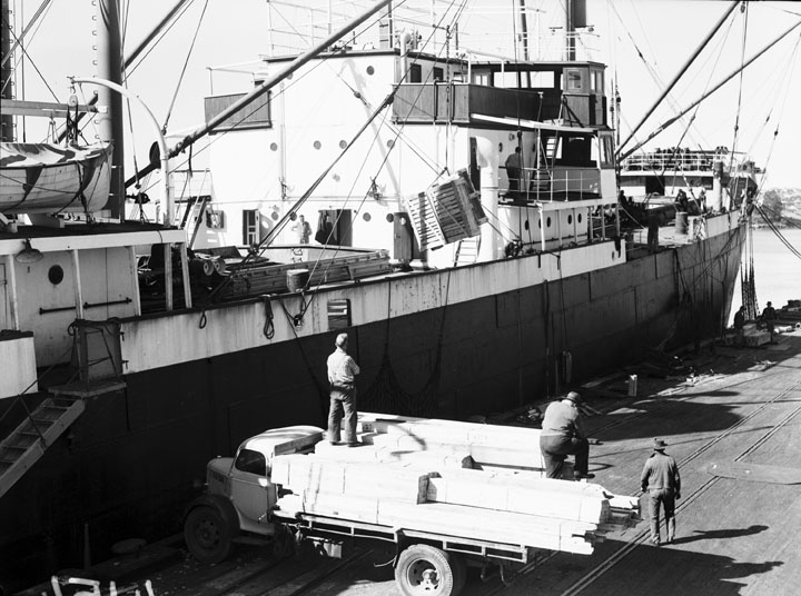 S.S.Marilu carrying prefabricated houses for the Queensland Housing Commission for Legoni and Passotti, Carina, from Genoa Italy. (S.S."Marilu" carrying prefabricated houses for the Queensland Housing Commission for Legoni and Passotti, Carina, from Genoa Italy. Shipment infected with Sirex wasp.)